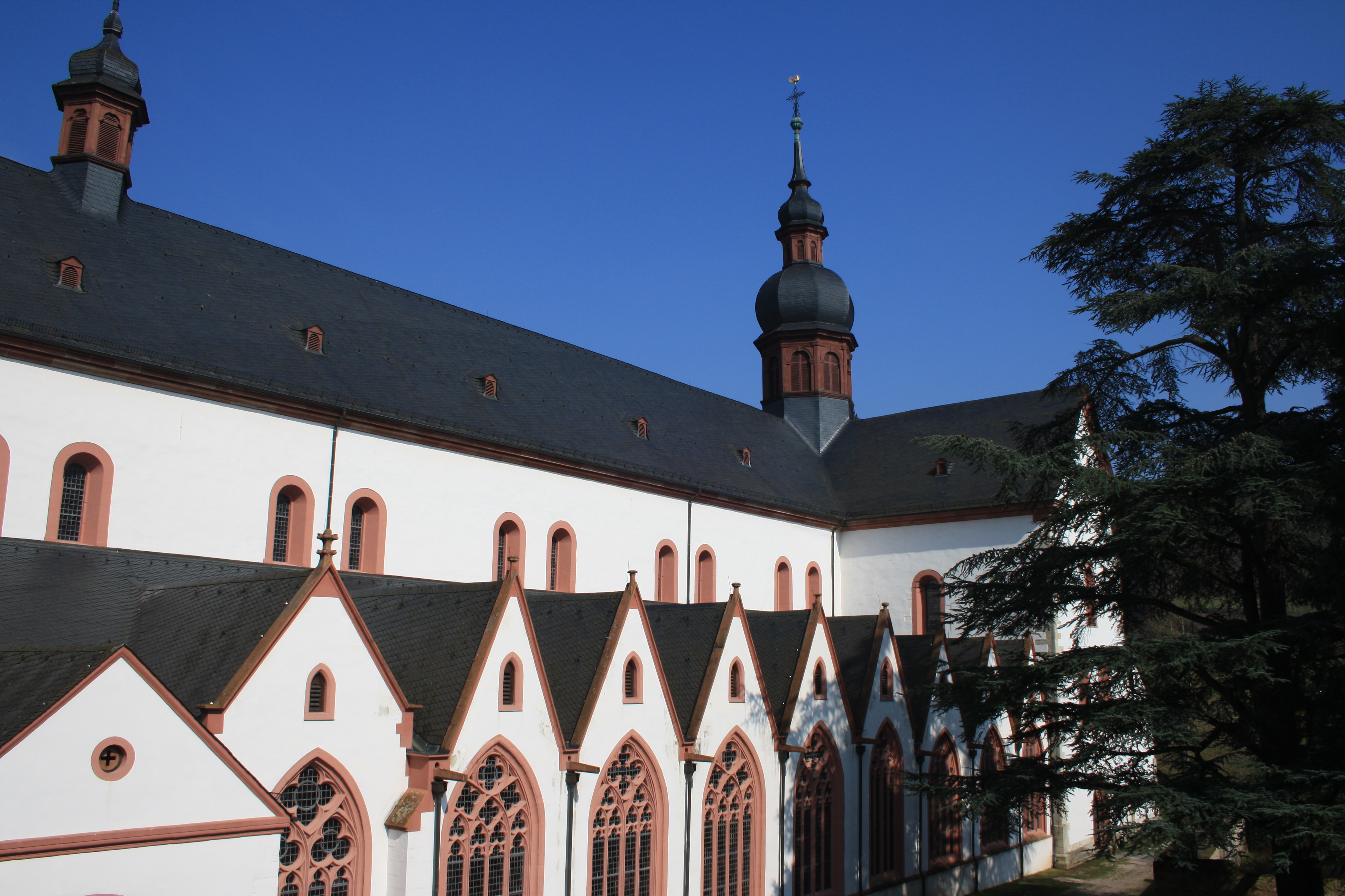 Monastery Eberbach, Germany, Church